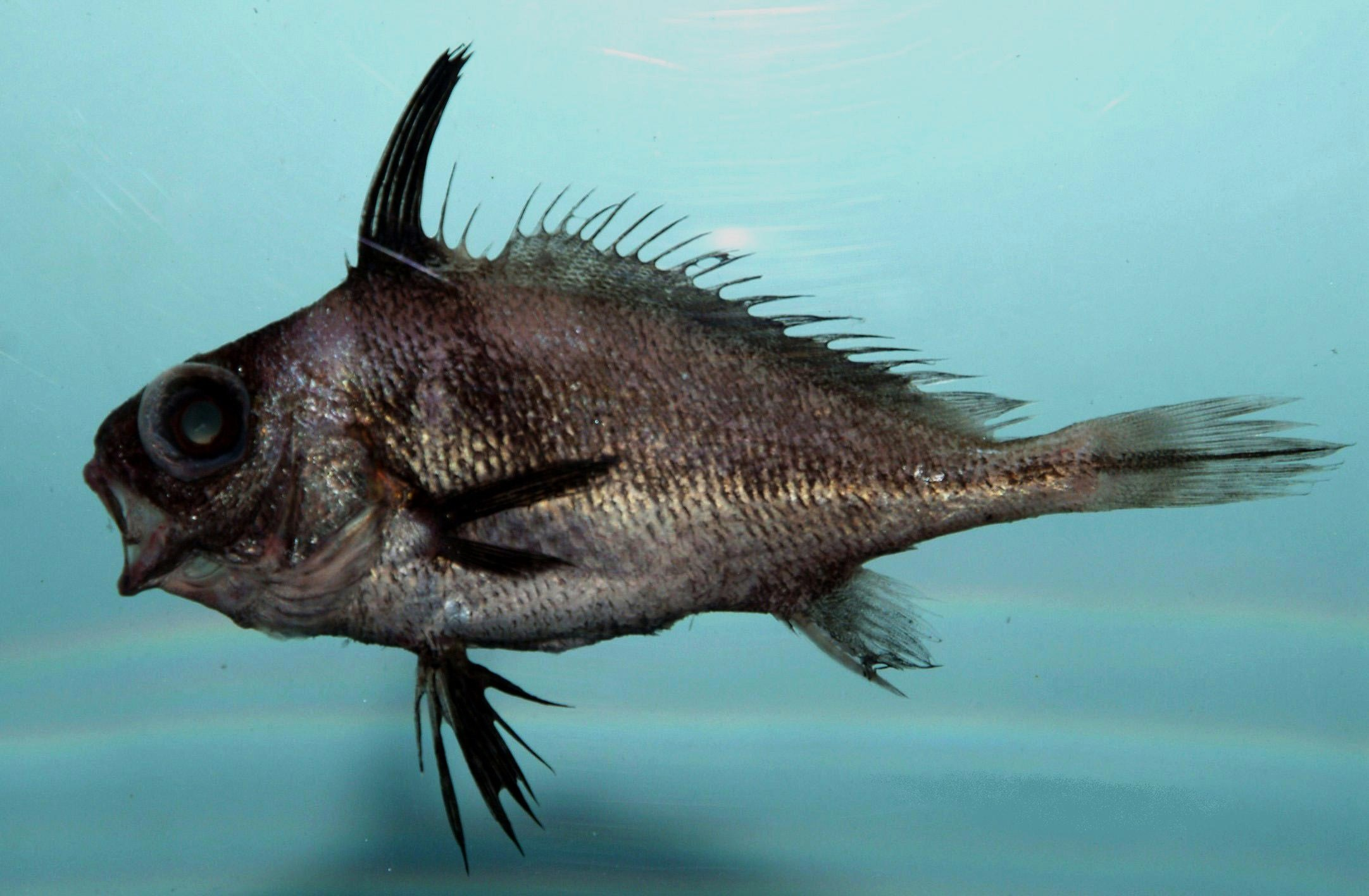 Blackbar drum ( Pareques iwamotoi ). Gulf of Mexico.